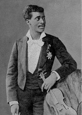 Claudio Jose Brindis Salas Garrido "Black Paganini" at 28 years old. Posing with his Stradivarius and his Prussian decoration "Order of the Black Eagle"